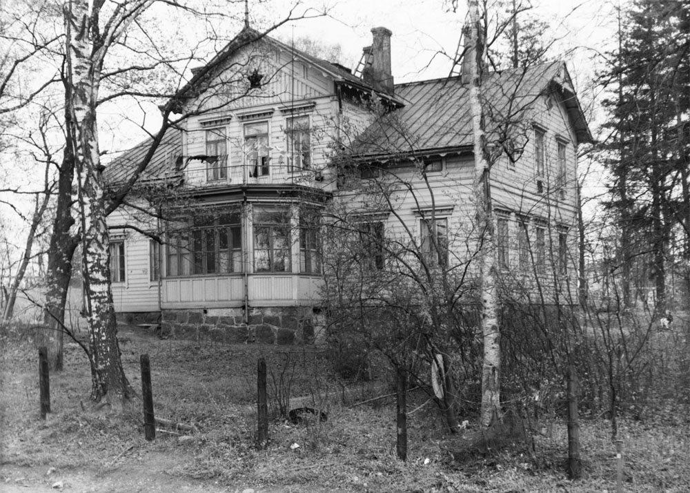 Malmi, Latokartanontie 1 (Helsingintie 1), 1962